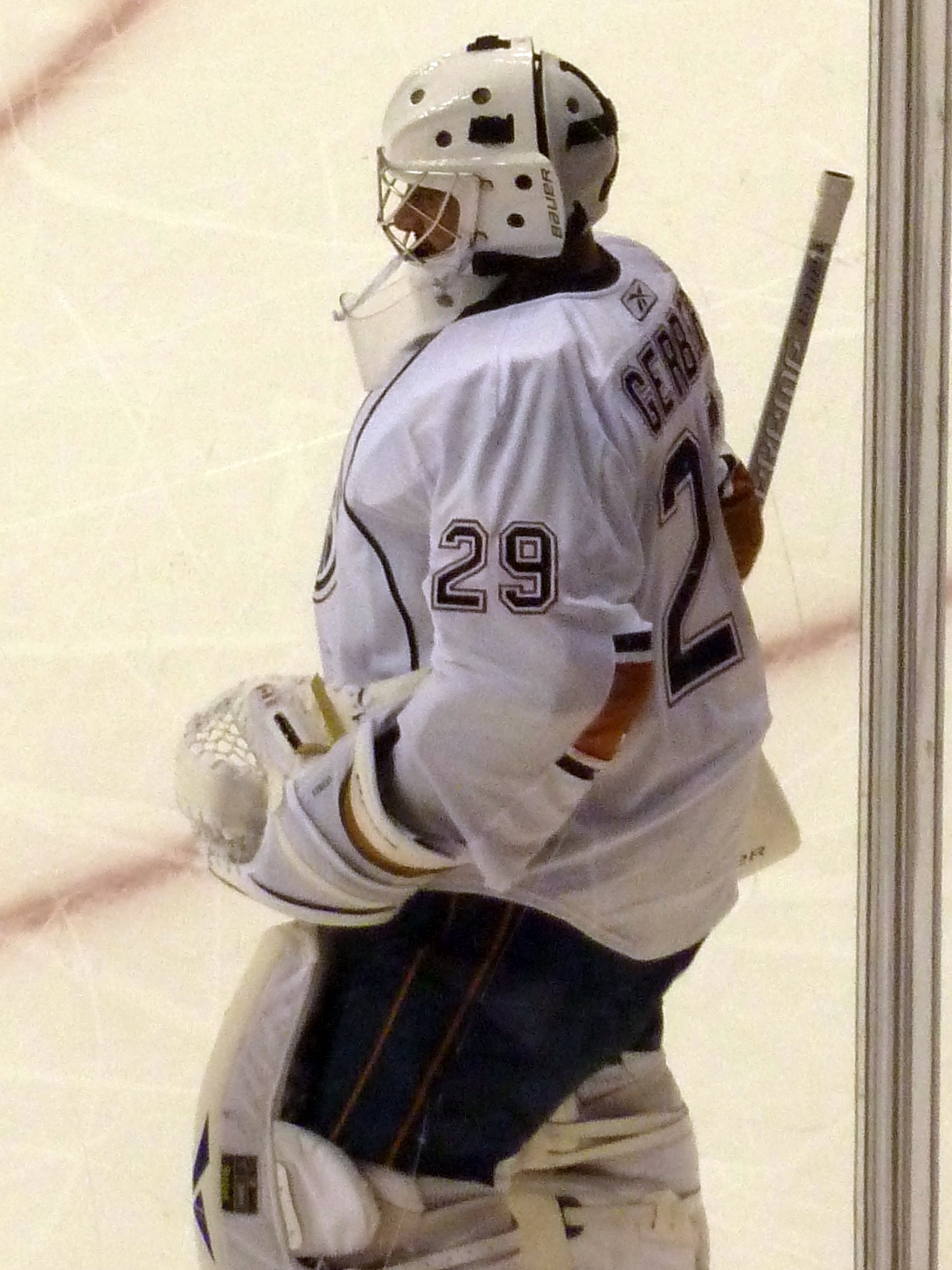 Edmonton Oilers goaltender Martin Gerber during a pre-season game against the Vancouver Canucks on September 9, 2010.